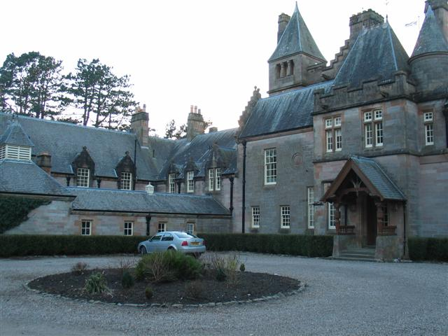 Killean House